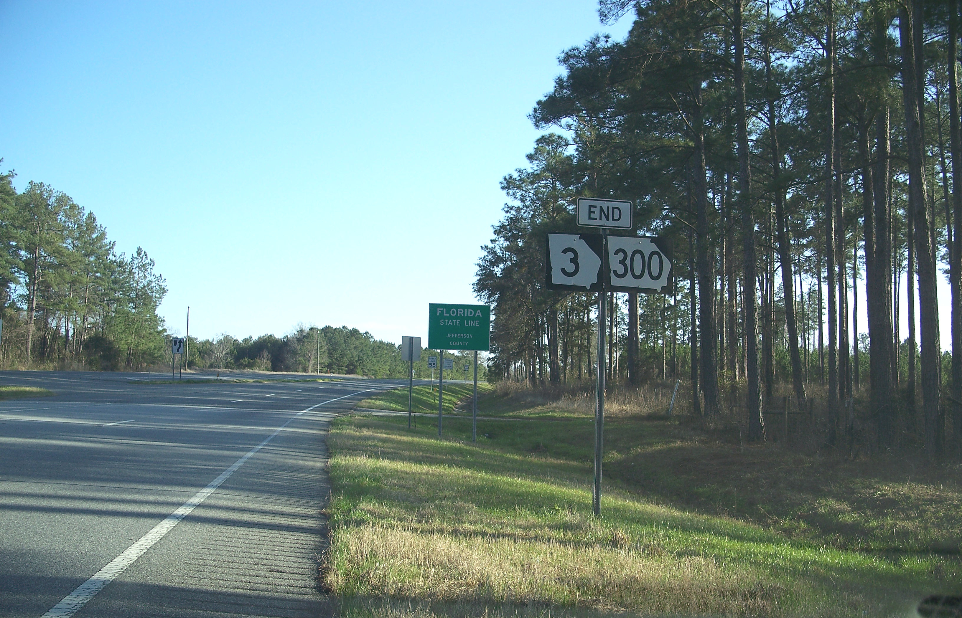 Florida/Georgia state line: US 19, looking south.